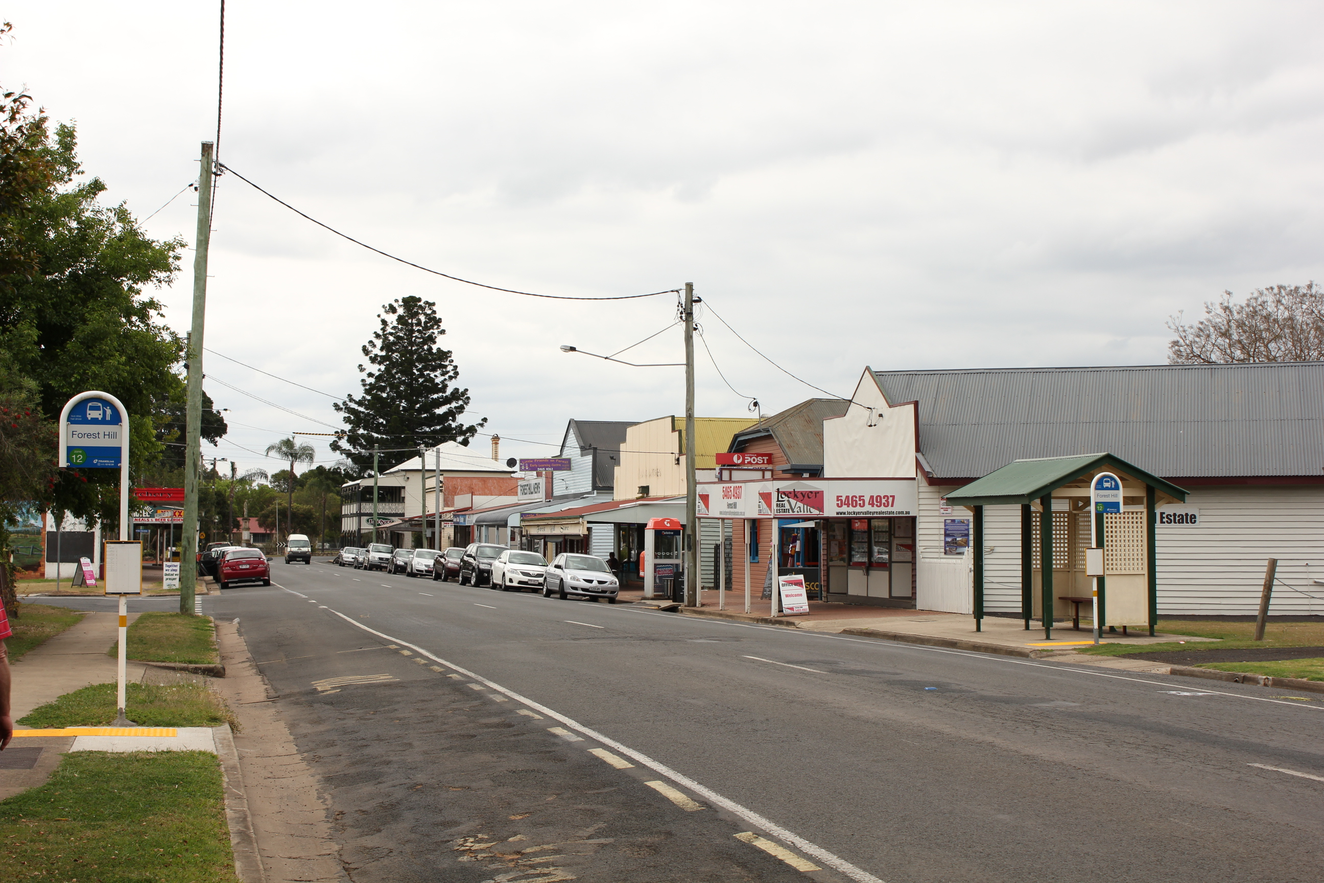 The main street of Forest Hill, Queensland, facing north-east.